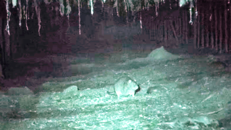 Mice control underground